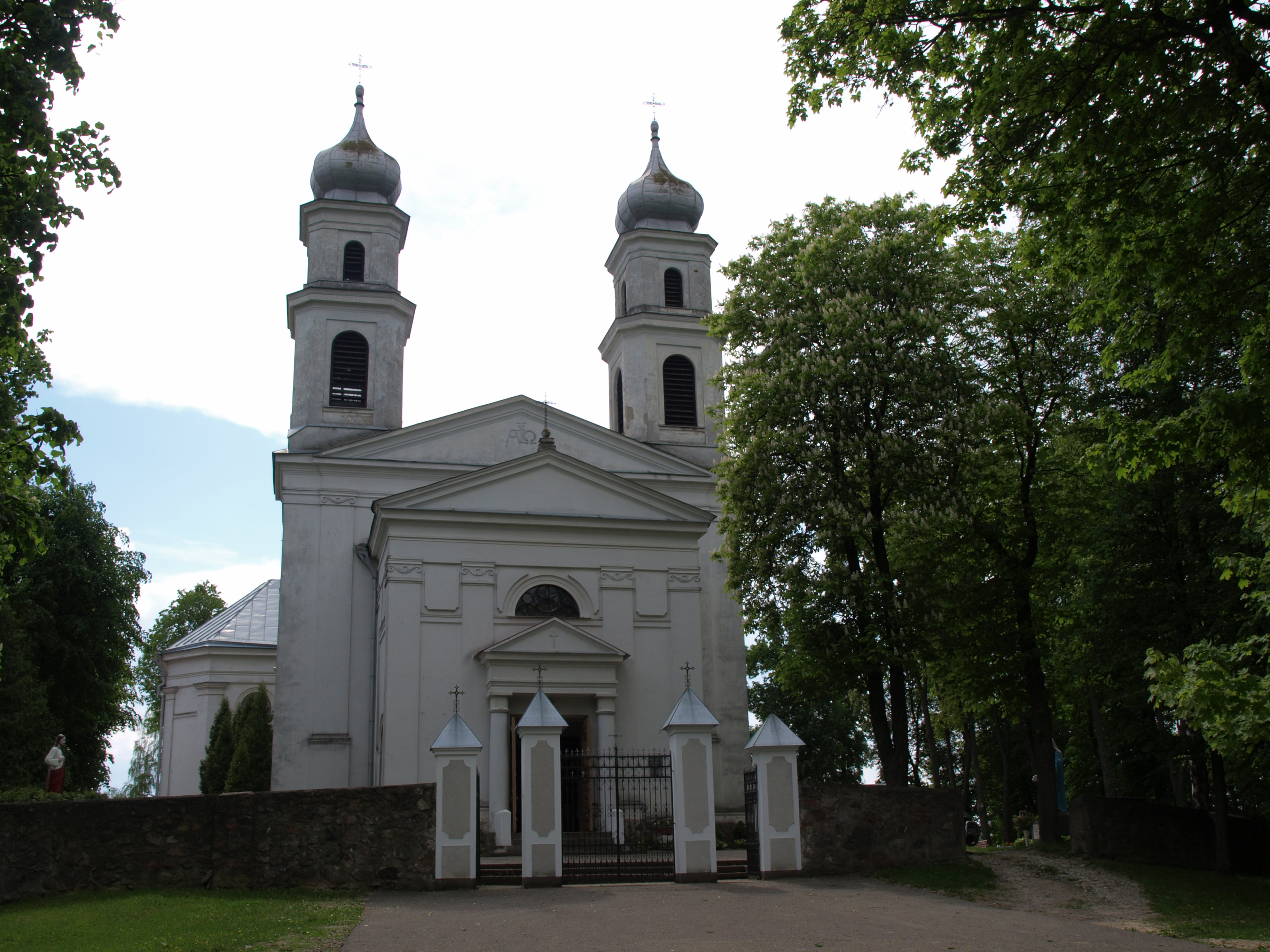 Miroslavas church, Alytus, Lithuania